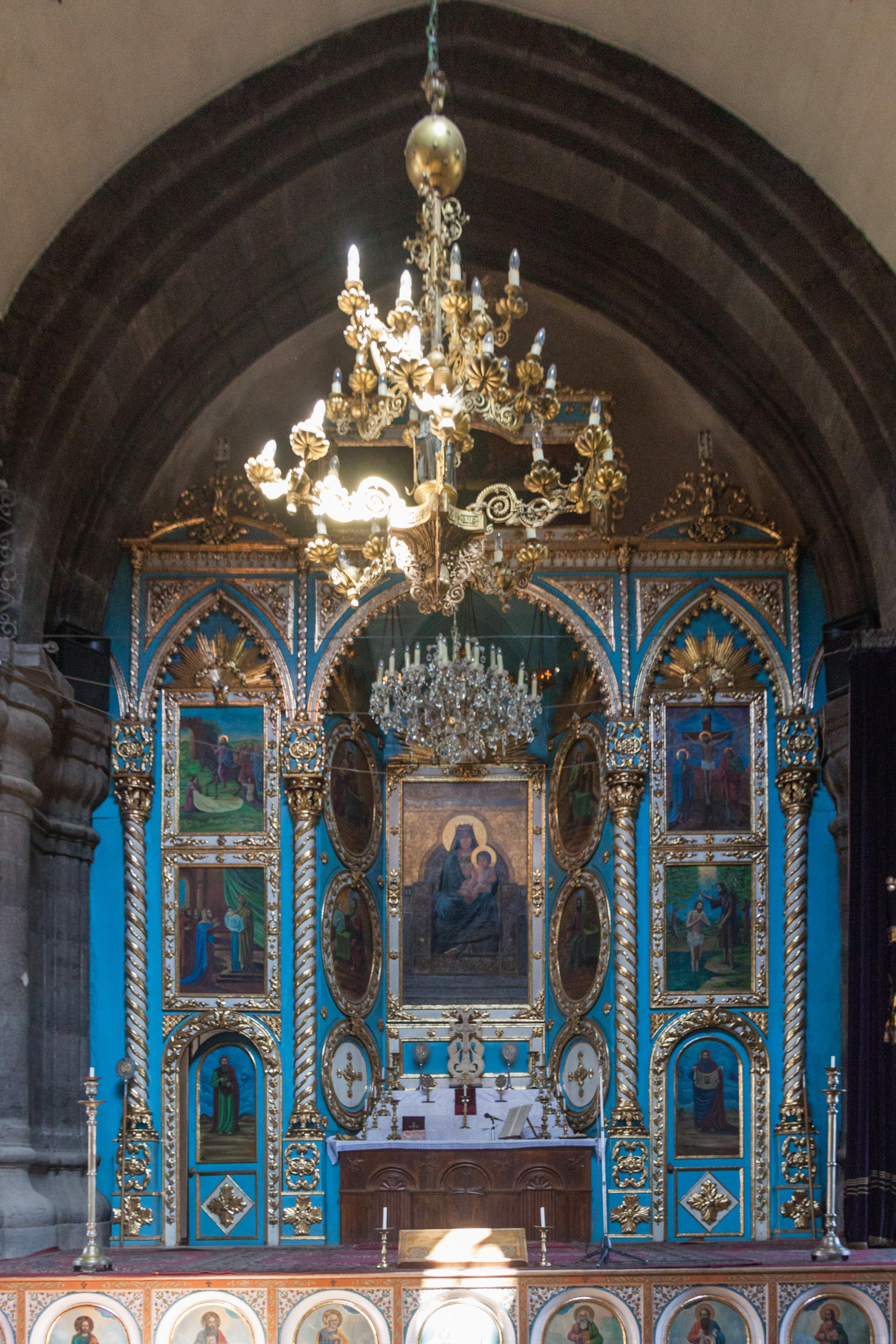 The altar. Holy Mother of God Cathedral. Gyumri, Shirak Province, Armenia.